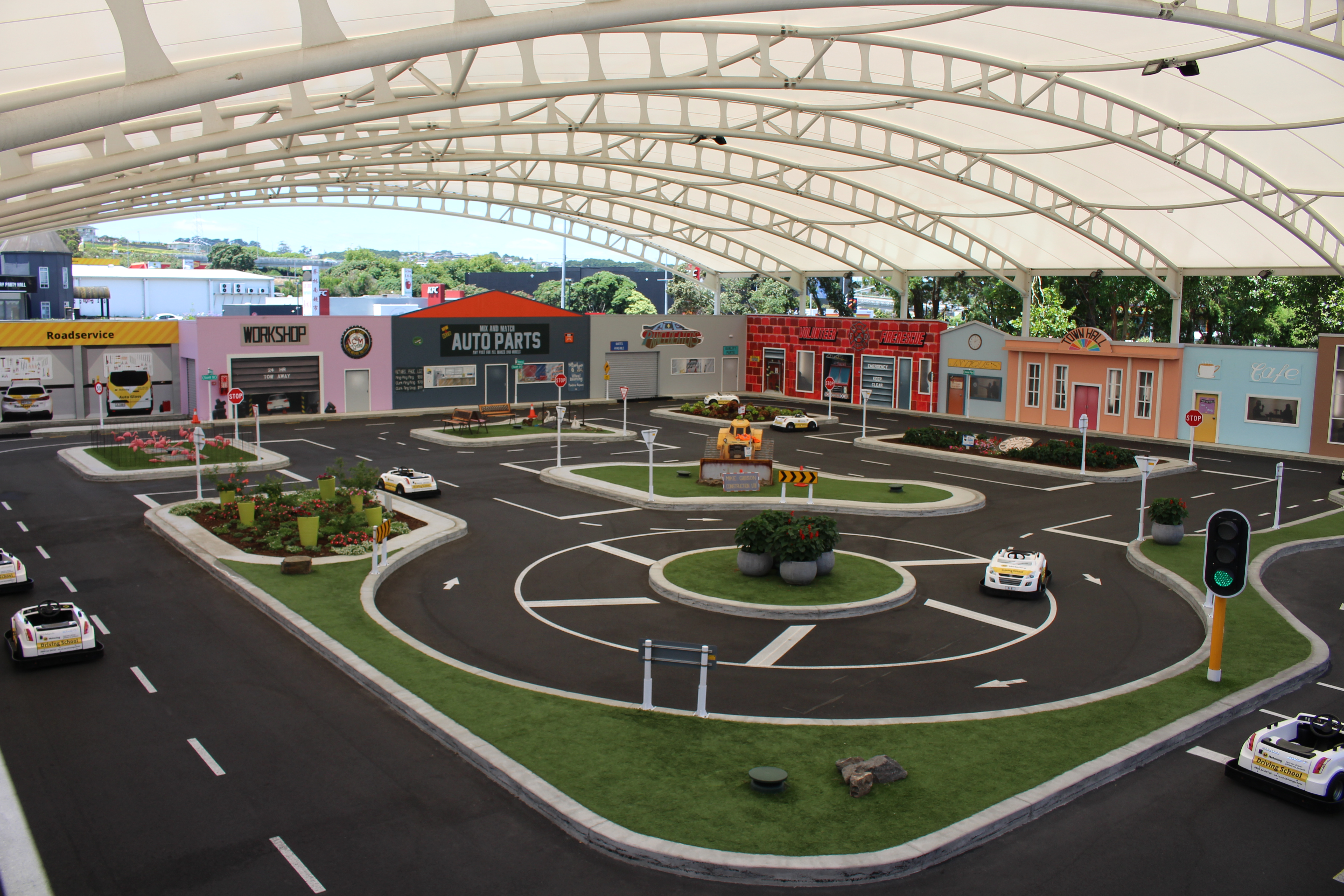 Rainbow's End Drivers Town